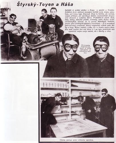 Toyen, Jindřich Štyrský and Josef Antonín Háša.